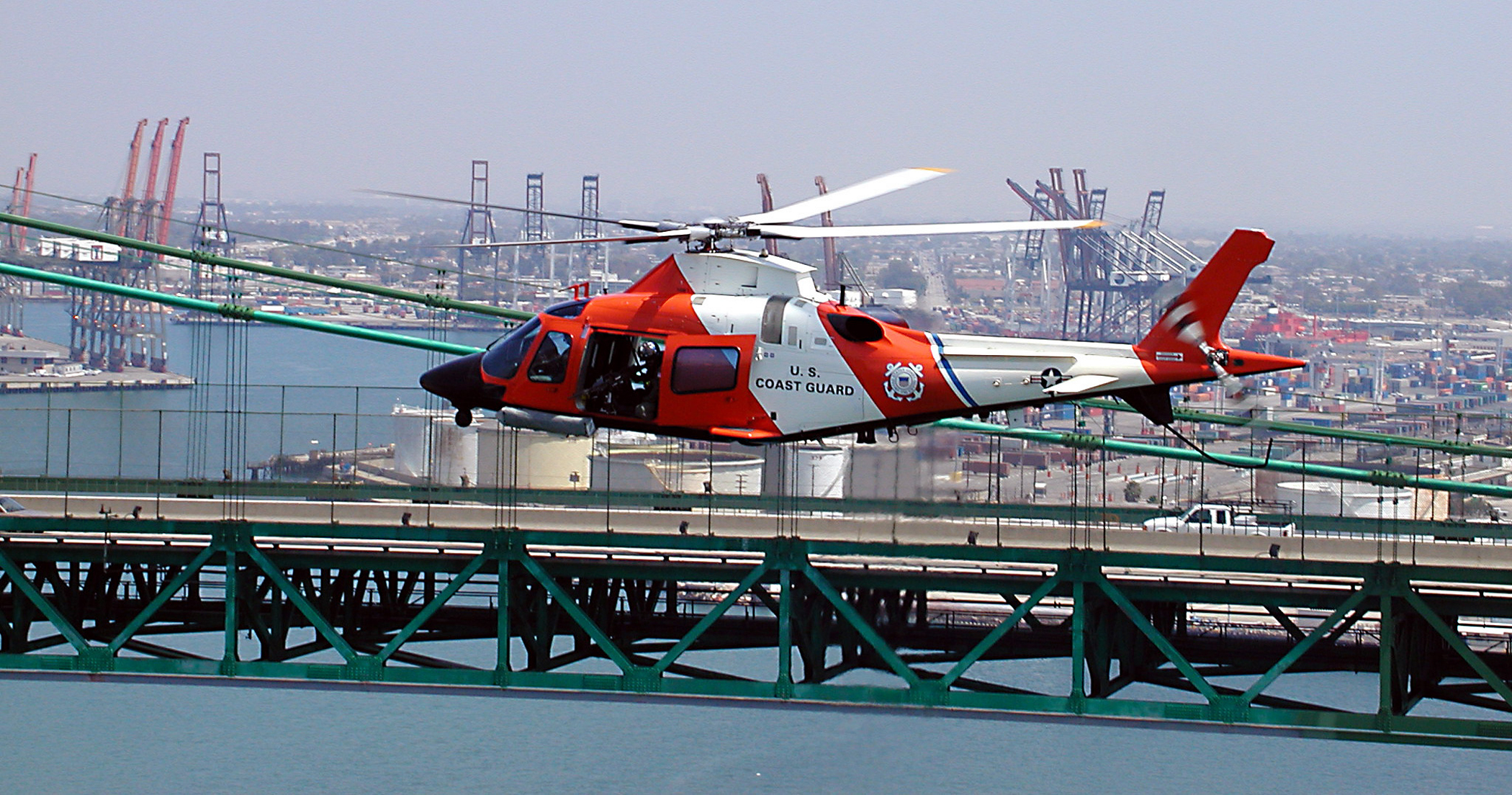 LOS ANGELES, Calif. (June 1, 2003)--The Helicopter Interdiction Tactical Squadron (HITRON) patrols the skies over the Los Angeles Harbor. The MH-68A helicopter is specially equipped with M-16 rifles, an M240 machine gun and the RC50 laser sighted 50-caliber precision rifle. HITRON's primary missions are drug interdiction and Home Land Security. The Vincent Thomas Bridge has been designated as the official landmark welcoming visitors to Los Angeles. It stretches 6,050 feet and stands 365 feet tall.USCG photo by PA3 Dave Hardesty Unit: U.S. Coast Guard District 11 DVIDS Tags: SECURITY; AERIAL; Los Angeles; Bridge; VINCENT; HOMELAND; THOMAS; SHIELD; HITRON; HELICOPTER; LIBERTY; Hardesty; CGVI; MH-68A; DVIDS Bulk Import